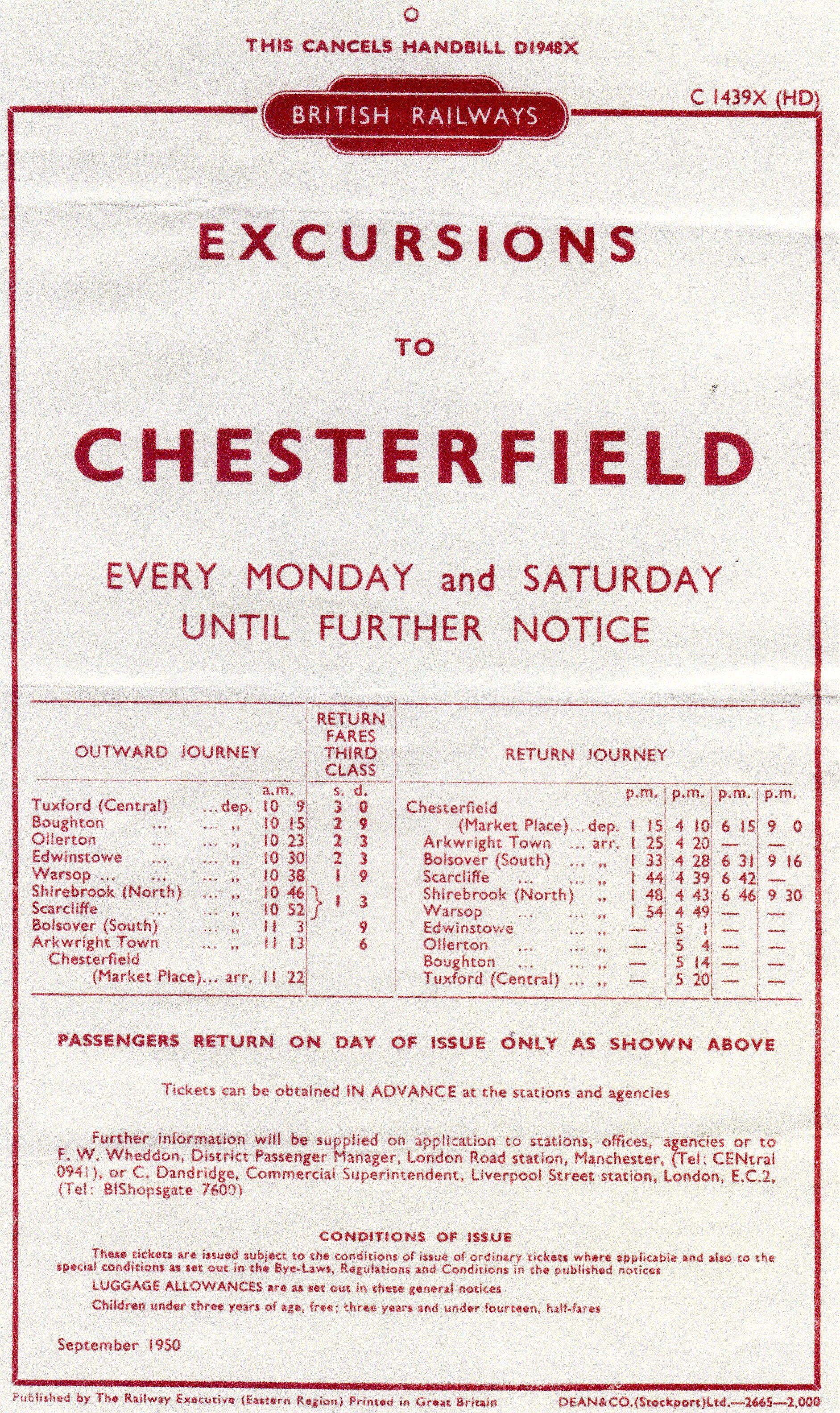 A scanned image of a 1950 handbill issued by British Railways advertising excursions to Chesterfield Market Place railway station